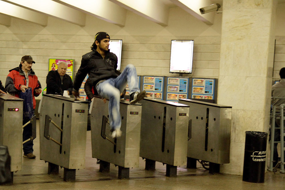 A ticketless passenger jumps over turnstile in Moscow Metro